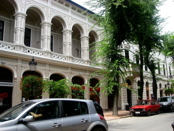 This is a self-made photo of one of Subotica's streets in downtown showing the town's architecture.